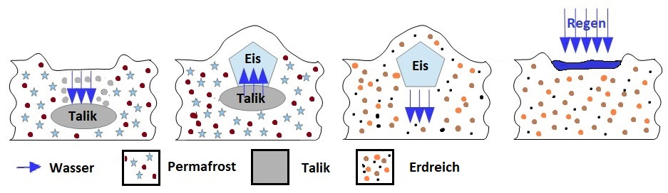 Sketch: Formation and development of a Mackenzie type pingo (closed type) to the Pingo ruin (Mardelle)